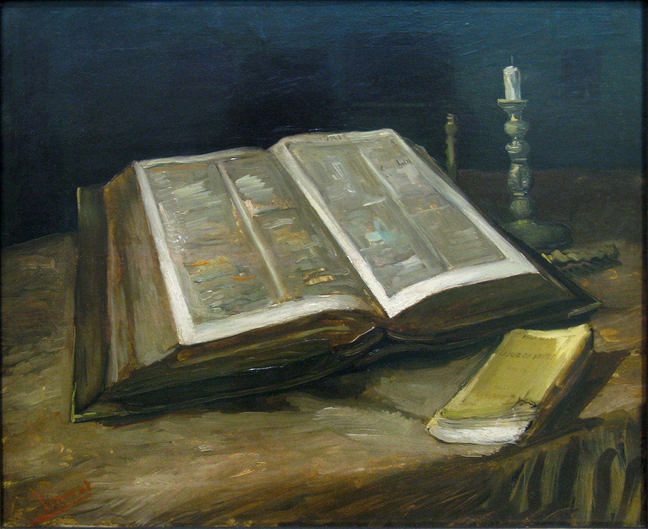 Still Life with Bible